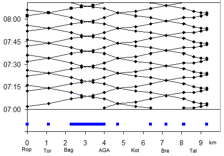 Graphical time table for the Lidingöbanan tramway in Sweden. Source is the real time table on The black dots are stops. The blue marks in the bottom are double track/passing loops.